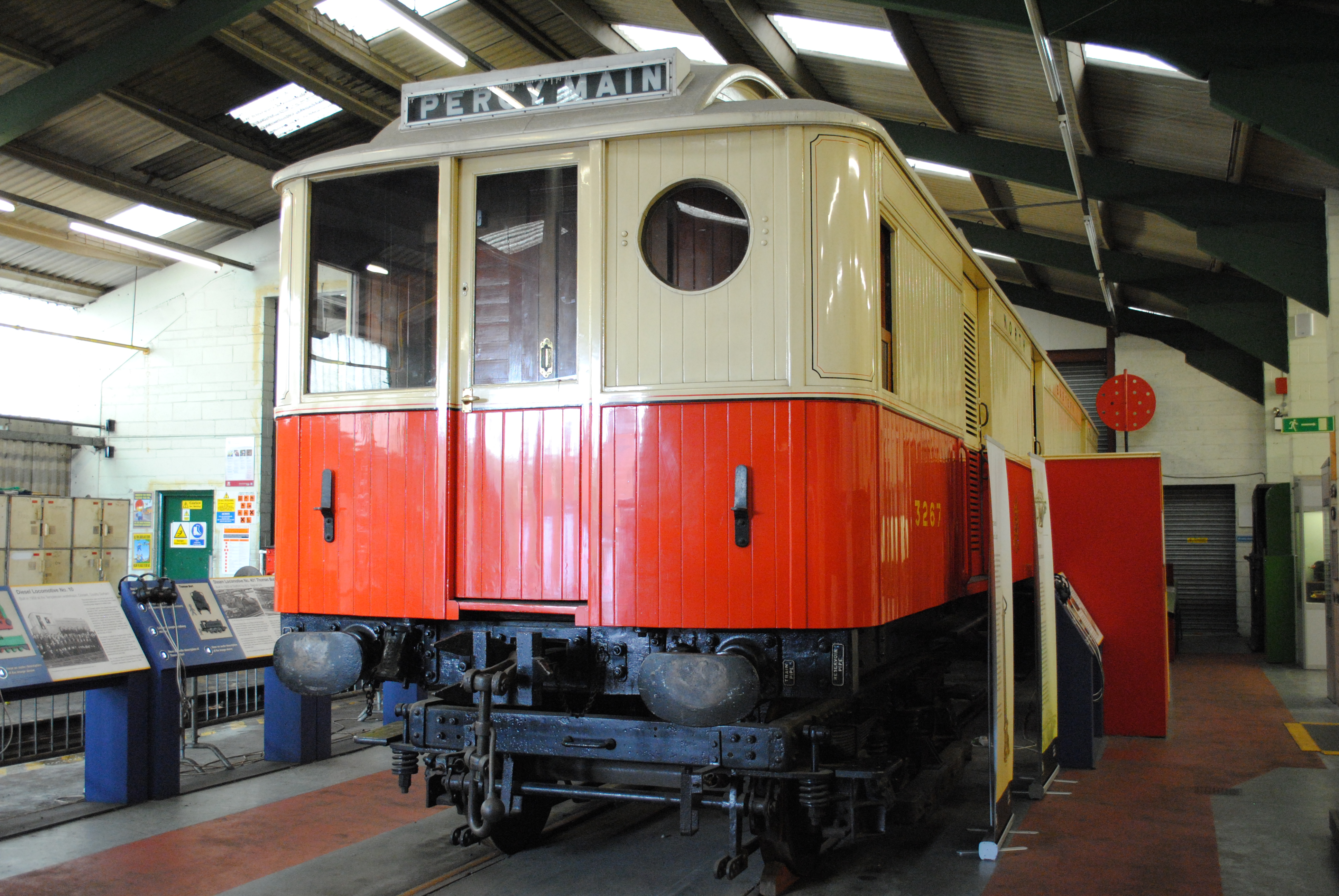 North Eastern Railway's EMU coach Parcel Van No.3267.